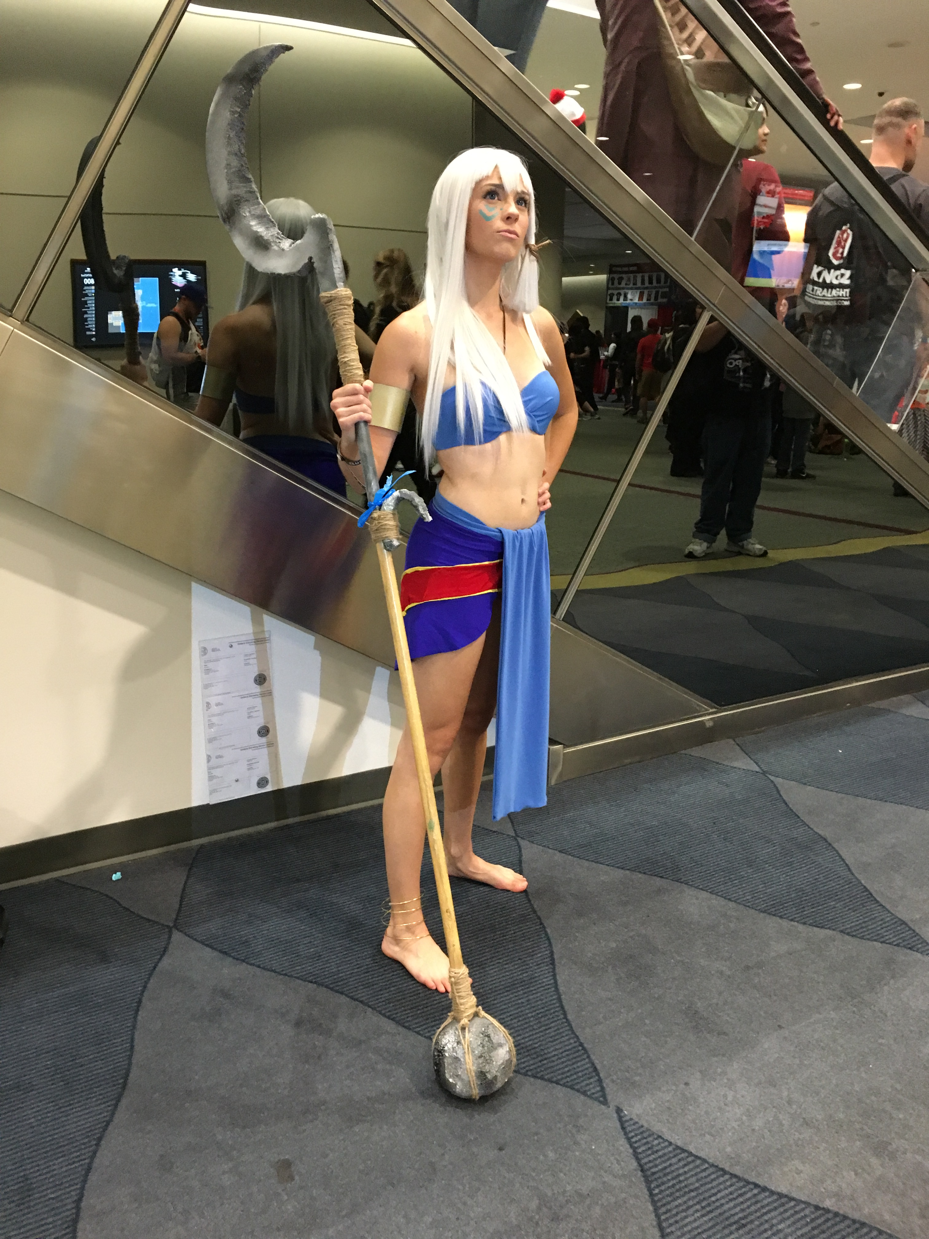 Cosplay at Fan Expo Canada 2017.